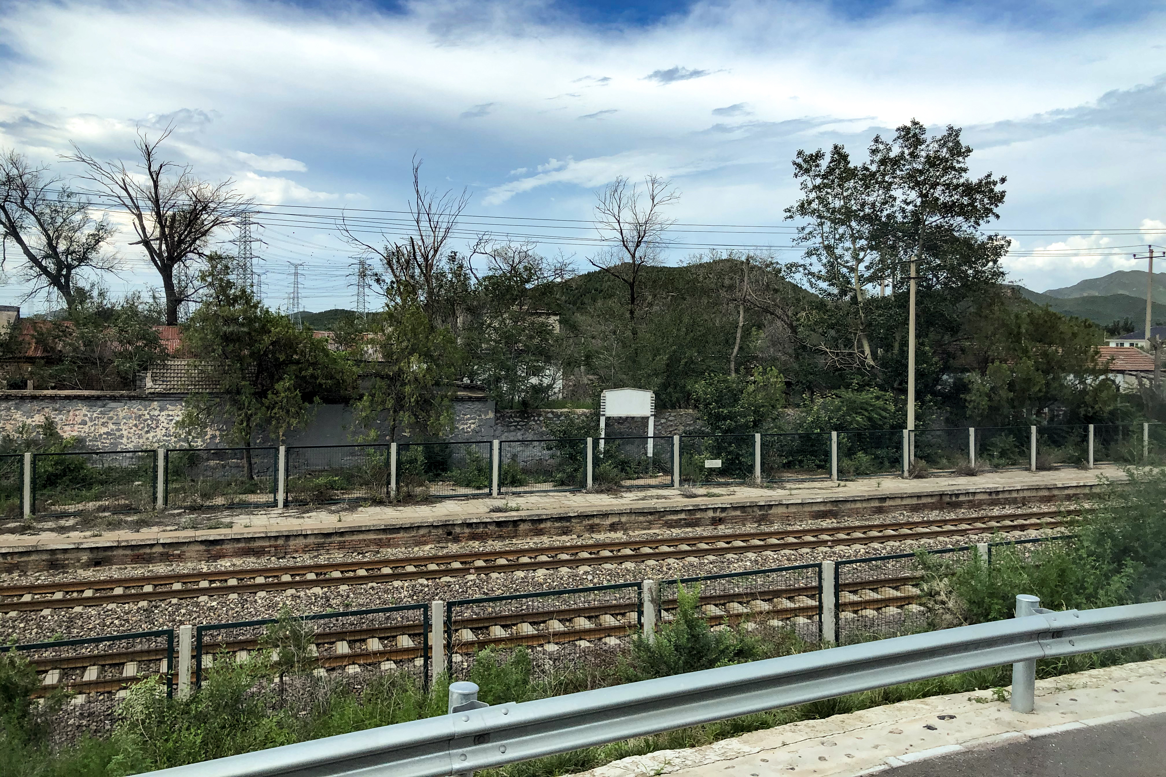 The sign has already been painted white.